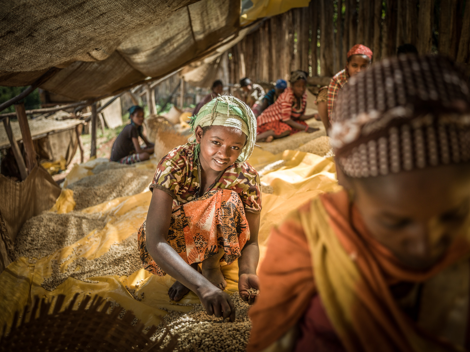 Girls sorting coffee, near Hawassa This is an image of "African people at work" from Ethiopia